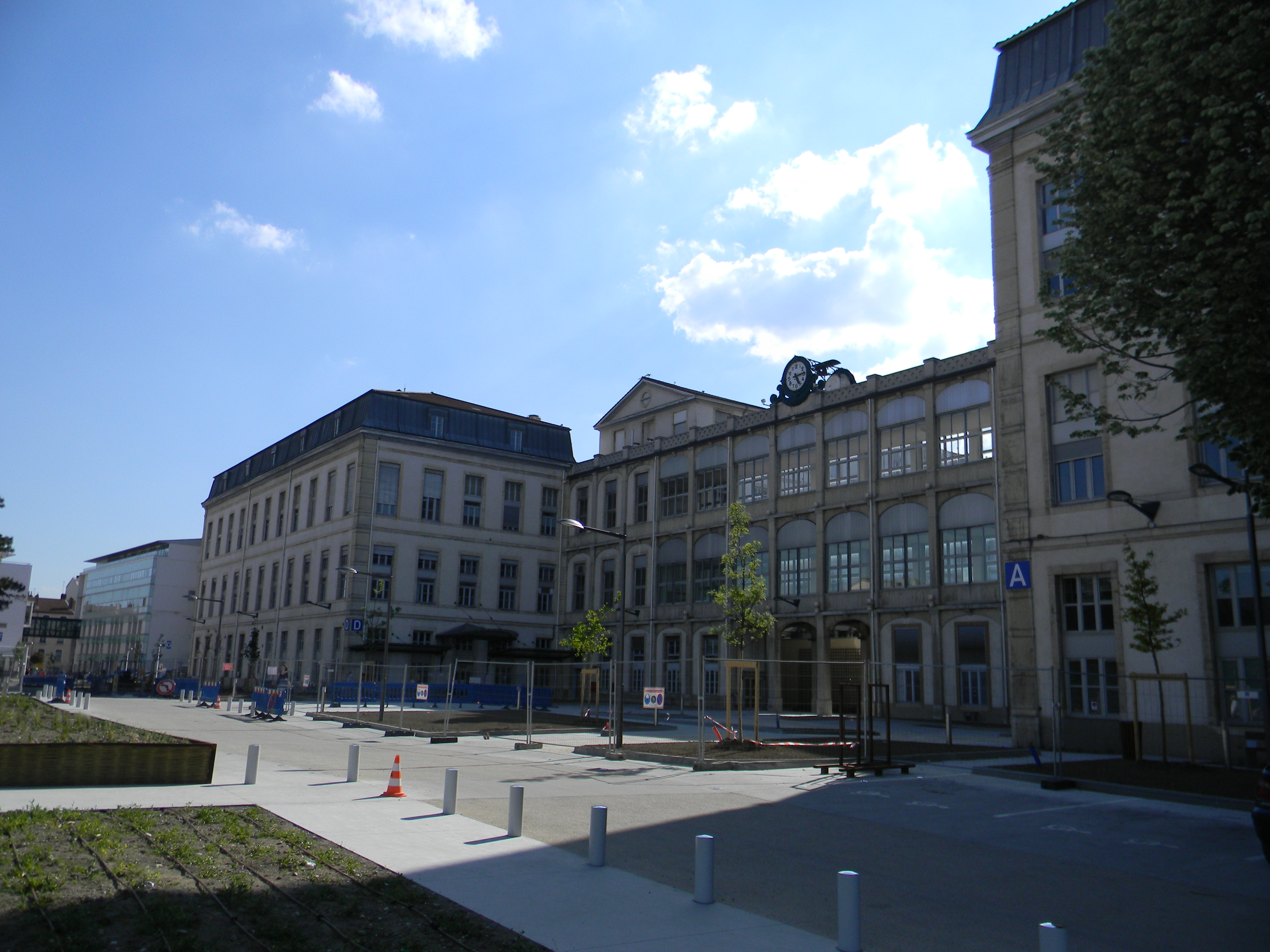 The Croix-Rousse hospital in Lyon